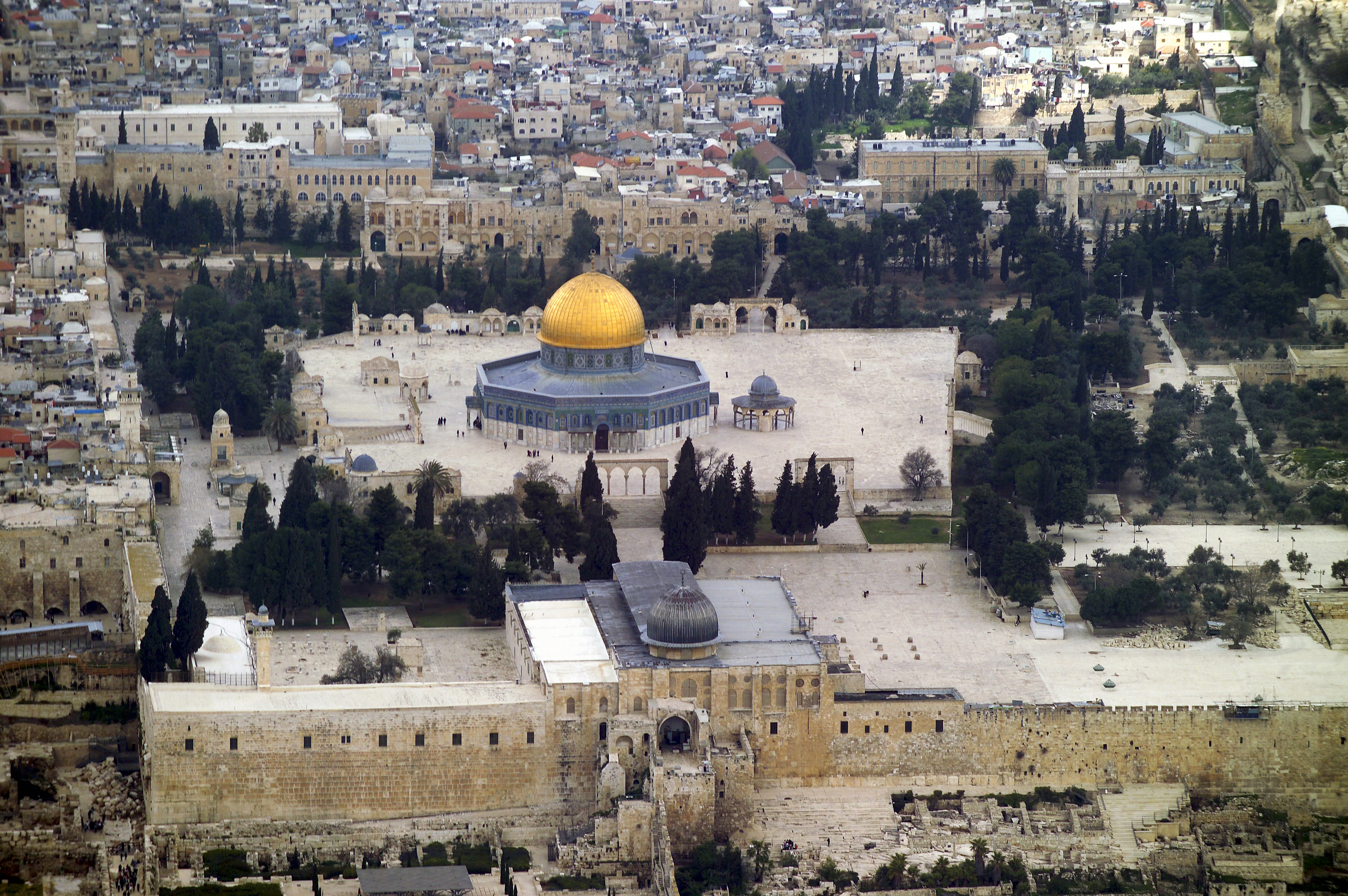 Aerial views of the Al-Aqsa Mosque and parts of the Old City of Jerusalem (2007)